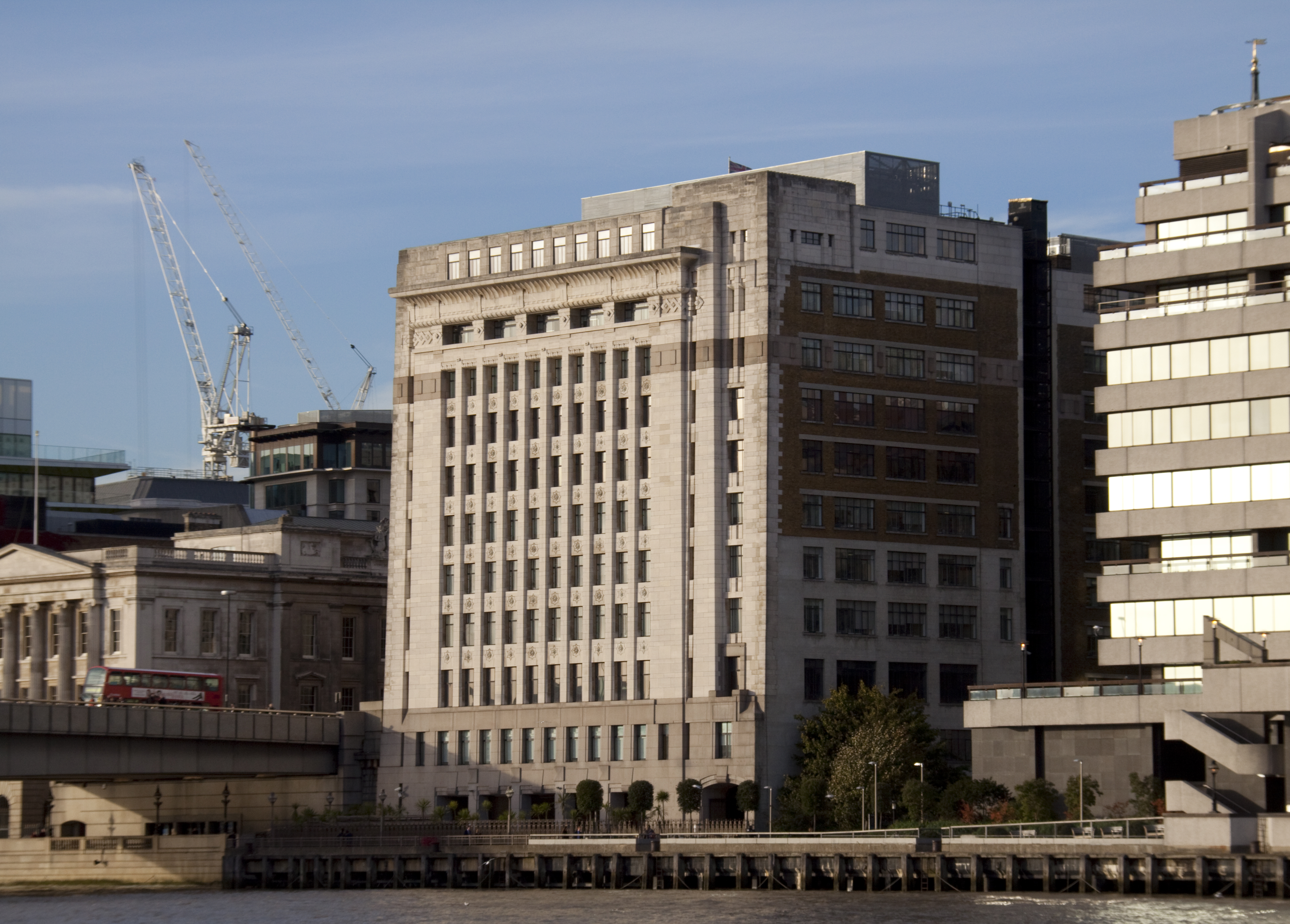 Built between 1924 and 1925 in a mixture of styles although it does owe some of its features to Art Deco